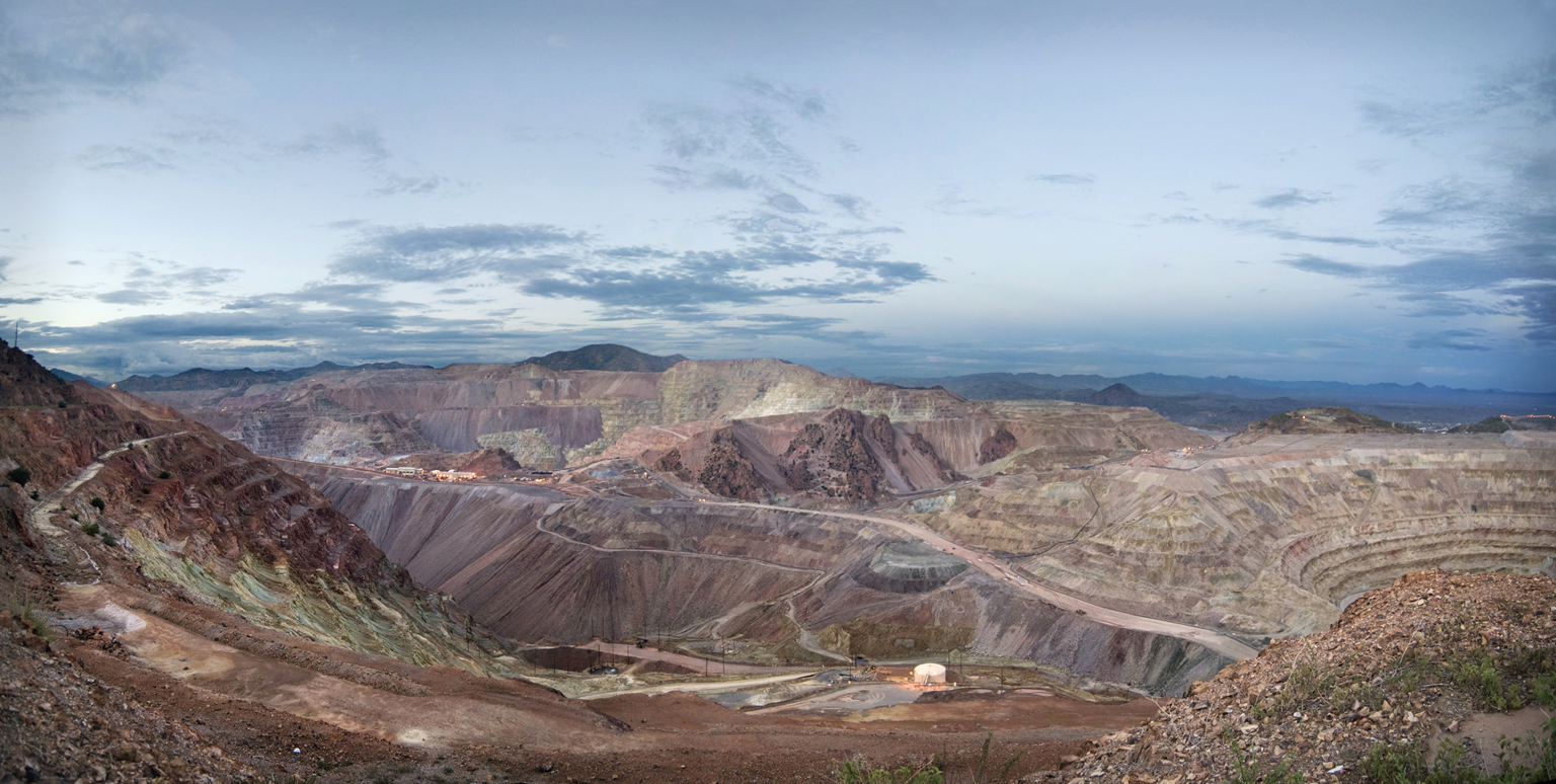 This is one of the pits at Morenci, the largest copper mine in the United States. Almost everything you see in the landscape of this photograph, bar one or two small slivers of dirt, could now be considered 'man made'. All of the rock in these gigantic mountains has been mined, stripped of its minerals and dumped back in place. The mine has been active for almost a century and a half, but the pace of progress in the modern era is almost scary in its intensity. Over a million tons of rock is wrested from the ground every day in an operation that never pauses for breath, working right round the clock - 24 hours a day.